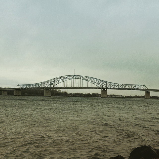 The Blue Bridge, which carries US 395 across the Columbia River, as viewed from Columbia Park in Kennewick.